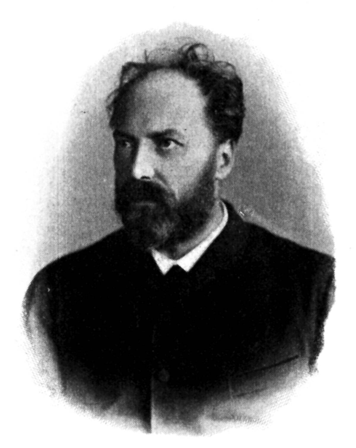 Heinrich Schüle (1840-1916)